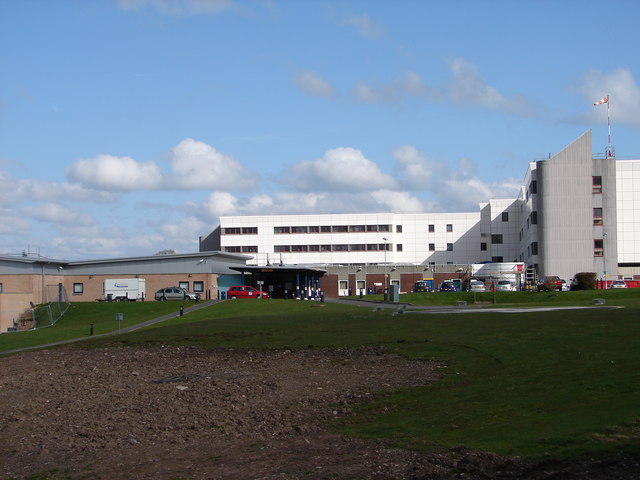 Dumfries & Galloway Royal Infirmary, A&E Dumfries & Galloway Royal Infirmary A&E and out patients entrances. Helicopter landing pad in foreground. Also see 769533.